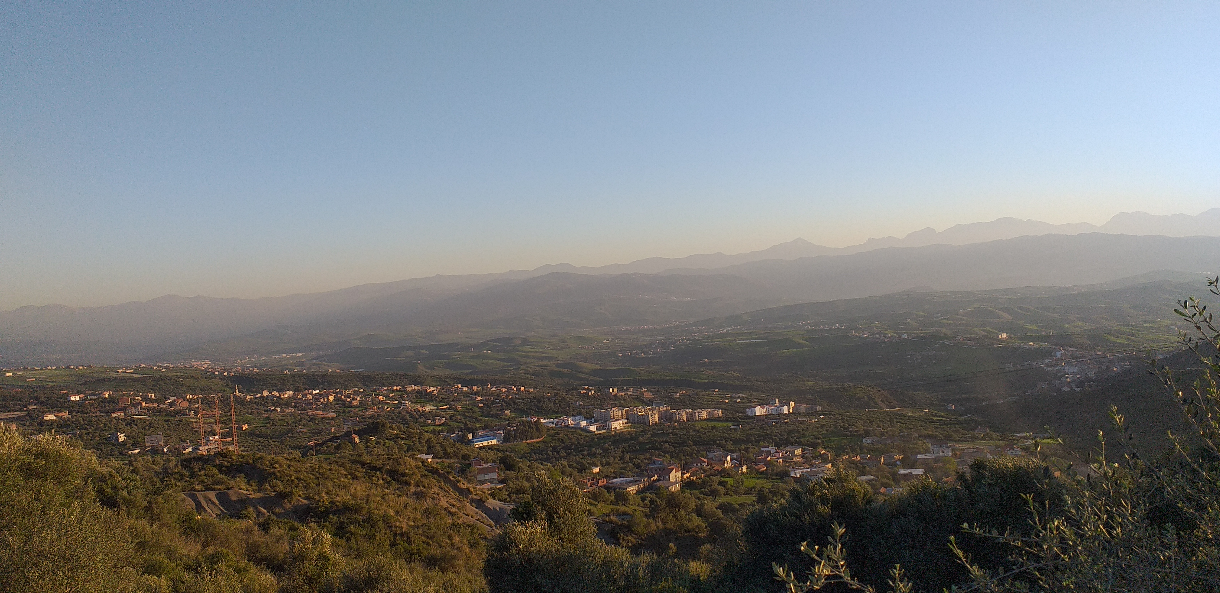 vue du village d'Igharbienne